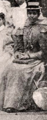 Lucy Hughes Brown, from an undated group photo.